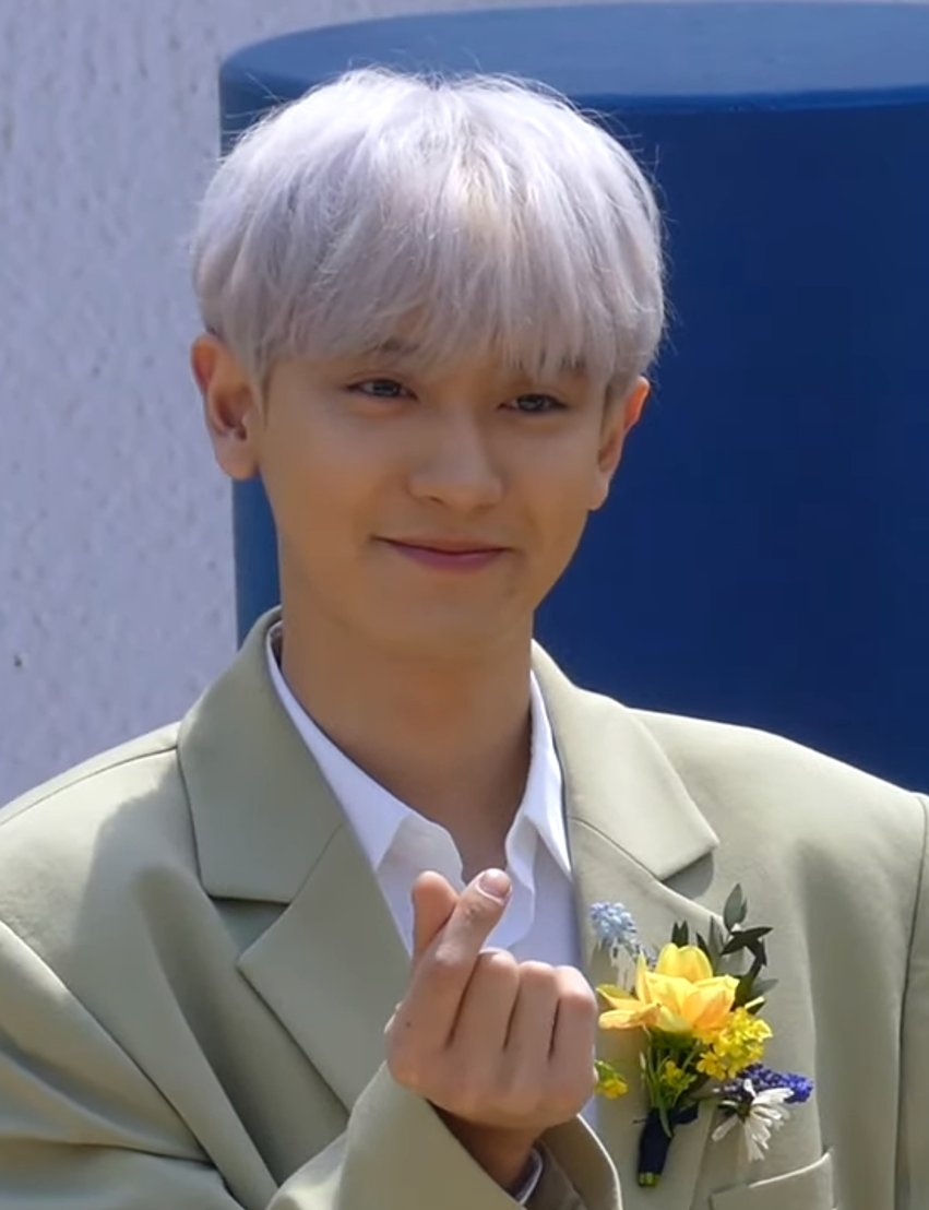 Chanyeol at Acqua Di Parma’s Cipresso Di Toscana Launching Party on May 9, 2019.